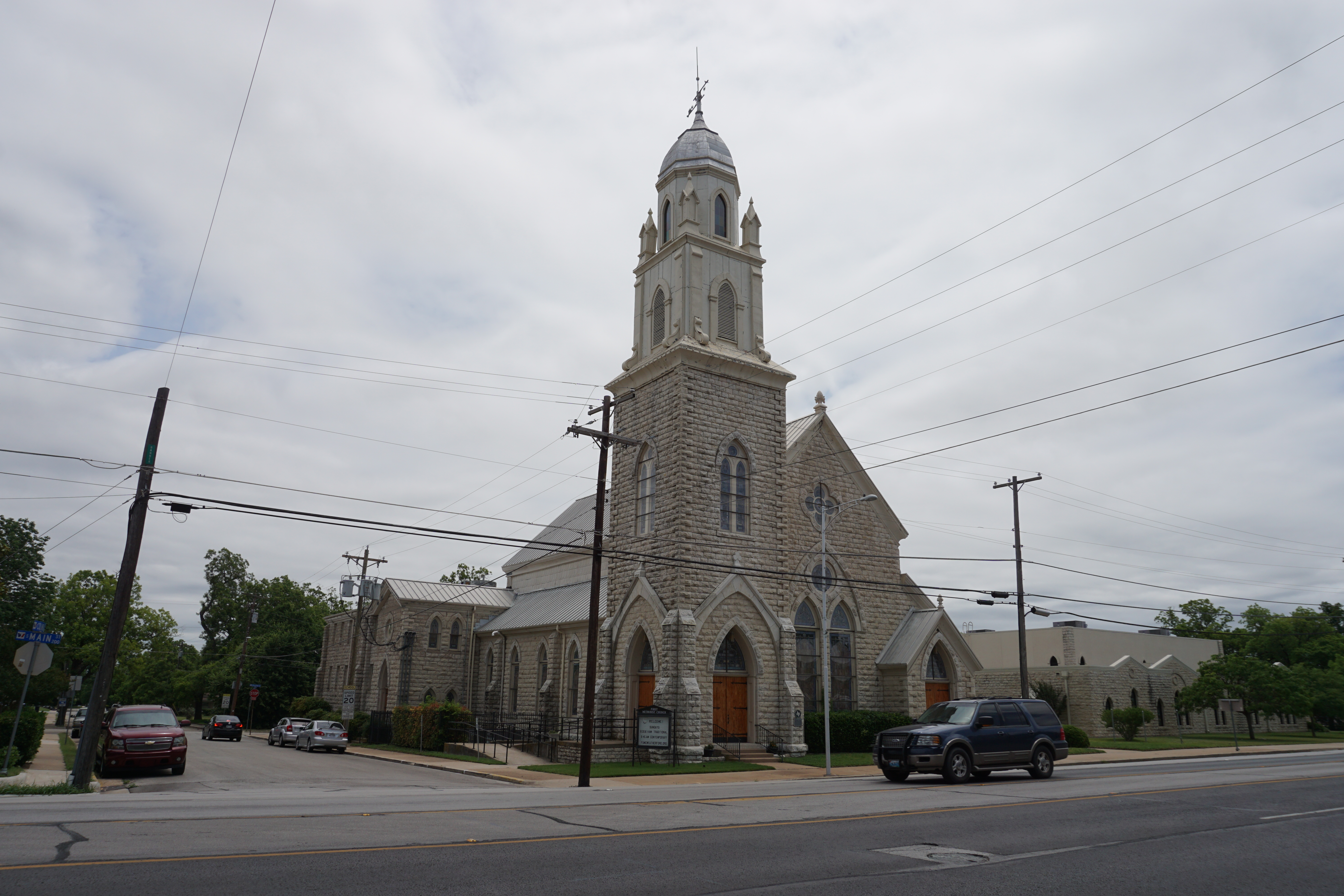 First Methodist Church in Weatherford, Texas (United States).